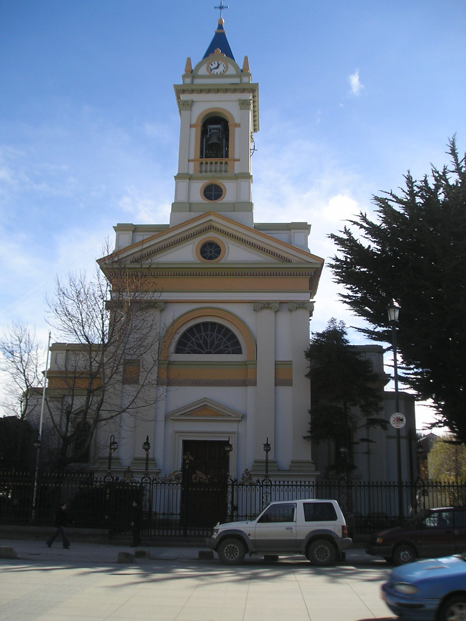 Punta Arenas, Chile - cathedral of Sacred Heart (Sagrado Corazón)